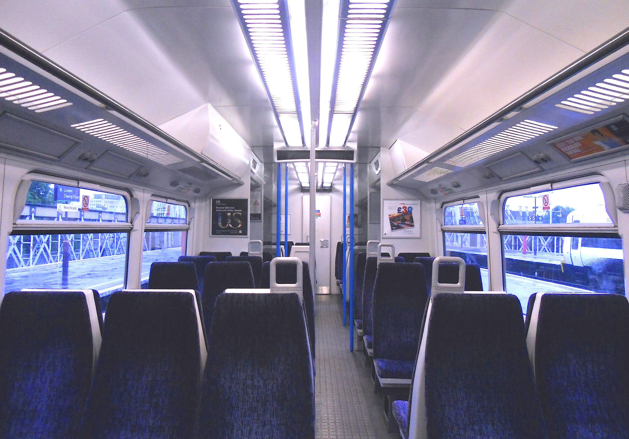 The refreshed interior of DMSO vehicle from a Southeastern Trains Class 465